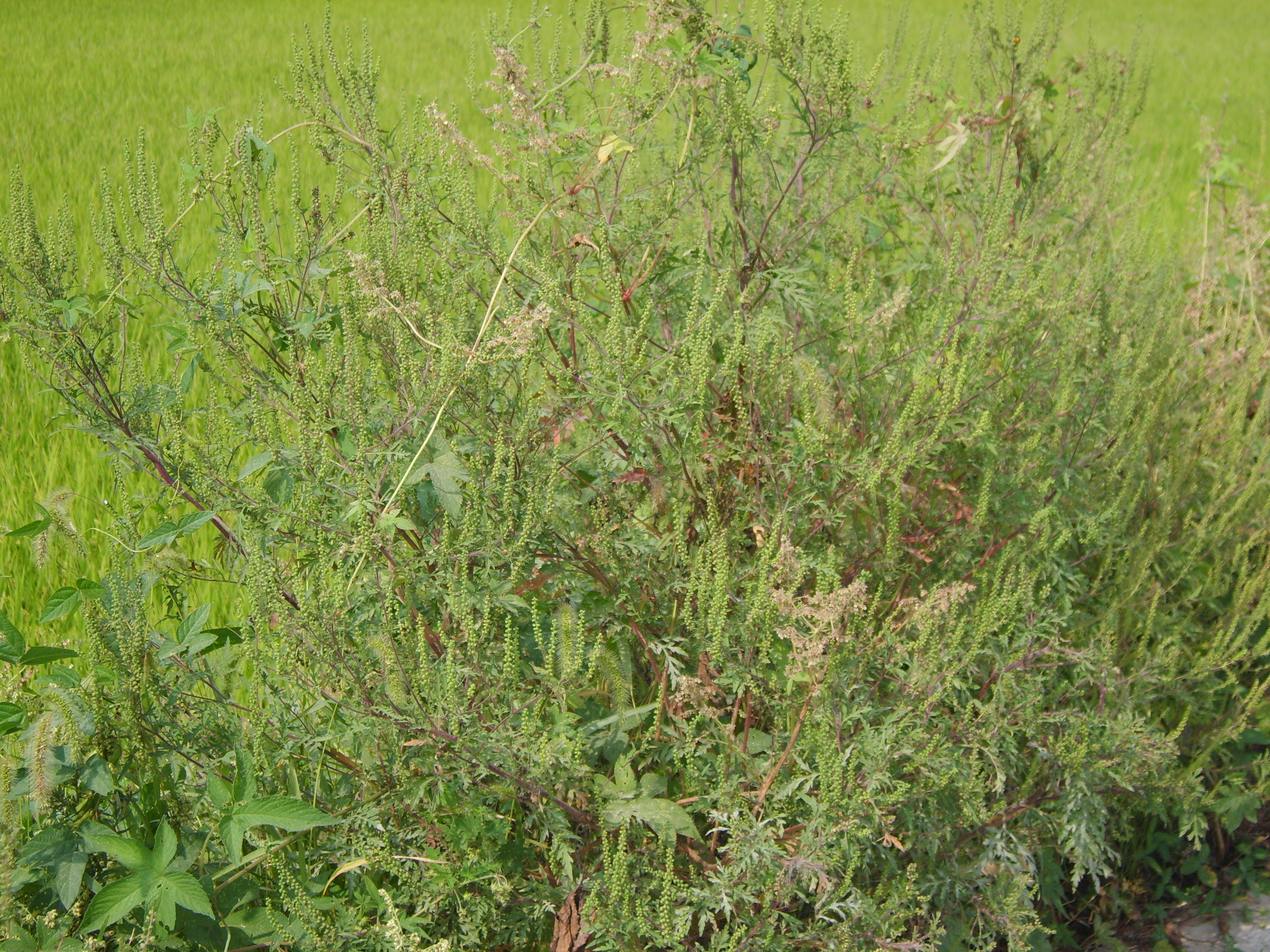 Ambrosia artemisiifolia